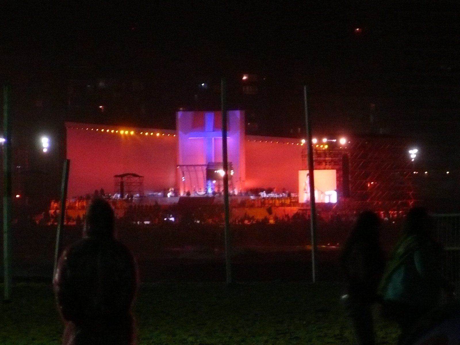 The 2013 World Youth Day in Rio de Janeiro (Brésil).